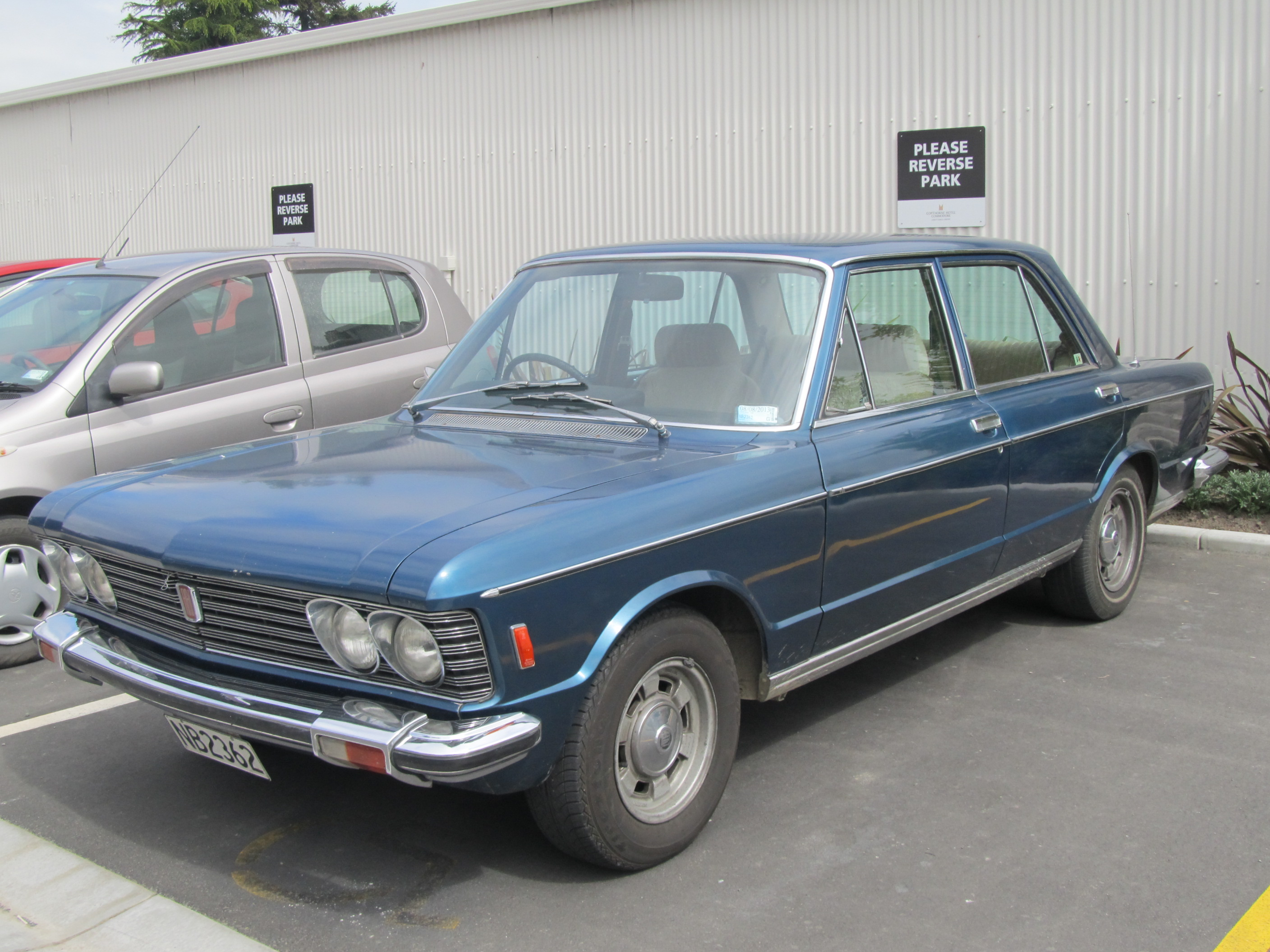 I forgot about uploading the photos of this car taken last October (2012) until today, when I was having a sort through of old folders on my computer. This stuck out so much in an everyday hotel car park, and it's a car I haven't seen since unfortunately. Everything about it is so Fiat and so typically stylish.